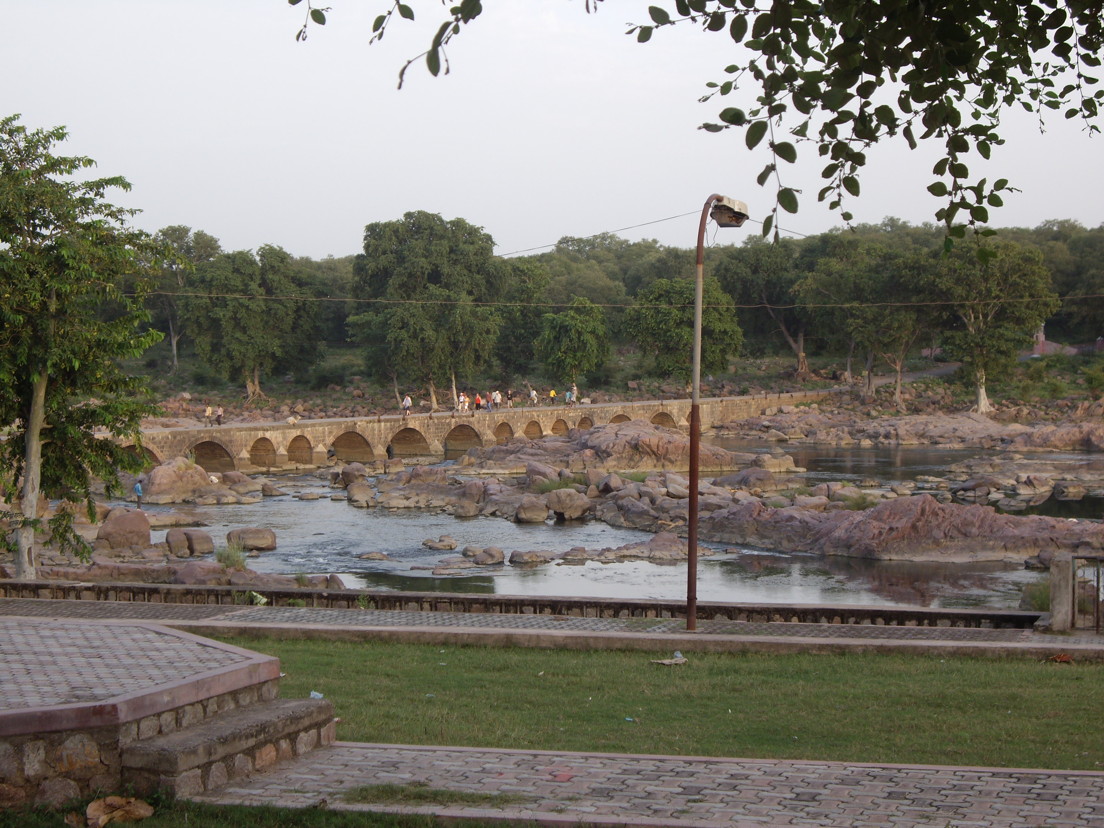 Orchha River